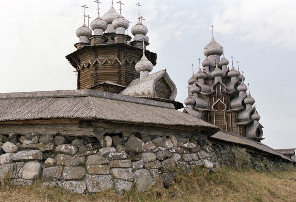 “Kizhi museum preserve”. Church domes of the museum preserve on the island of Kizhi.